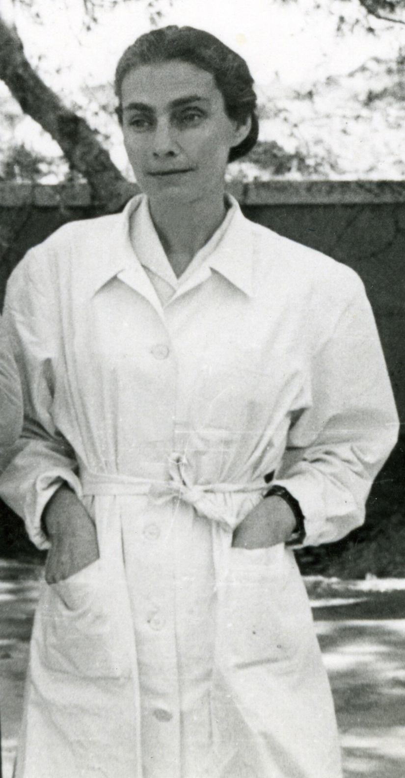 Elisabeth Goldschmidt in 1955